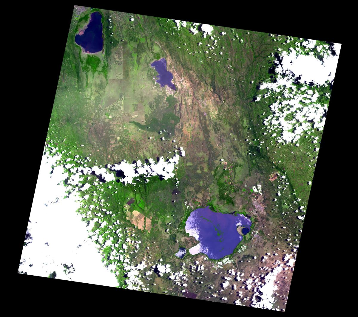 Area surrounding Elmenteita Badlands in Kenya. Includes Eburru, Ol Doin Yo.